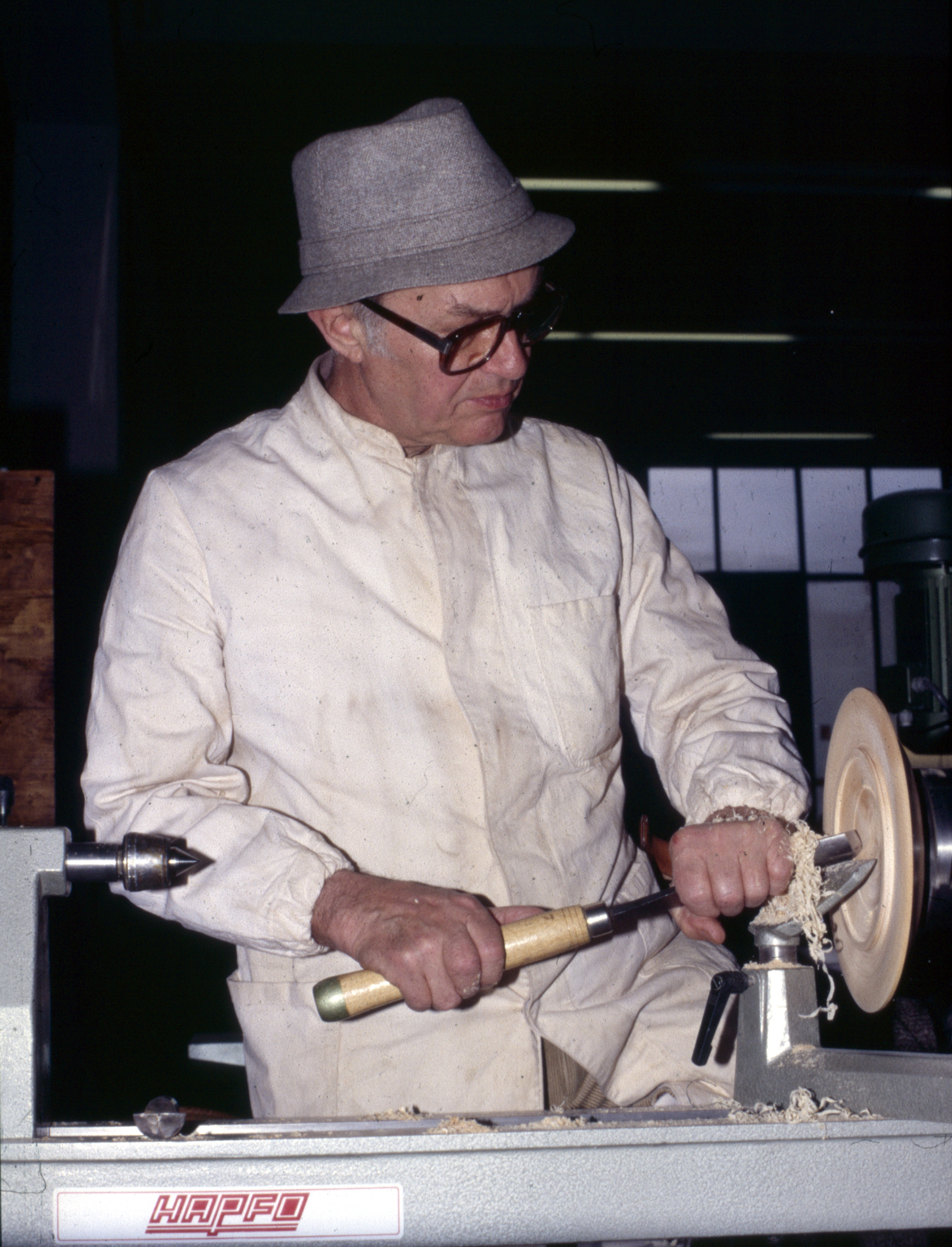 German woodturner in Rodalben. Turning a plate.